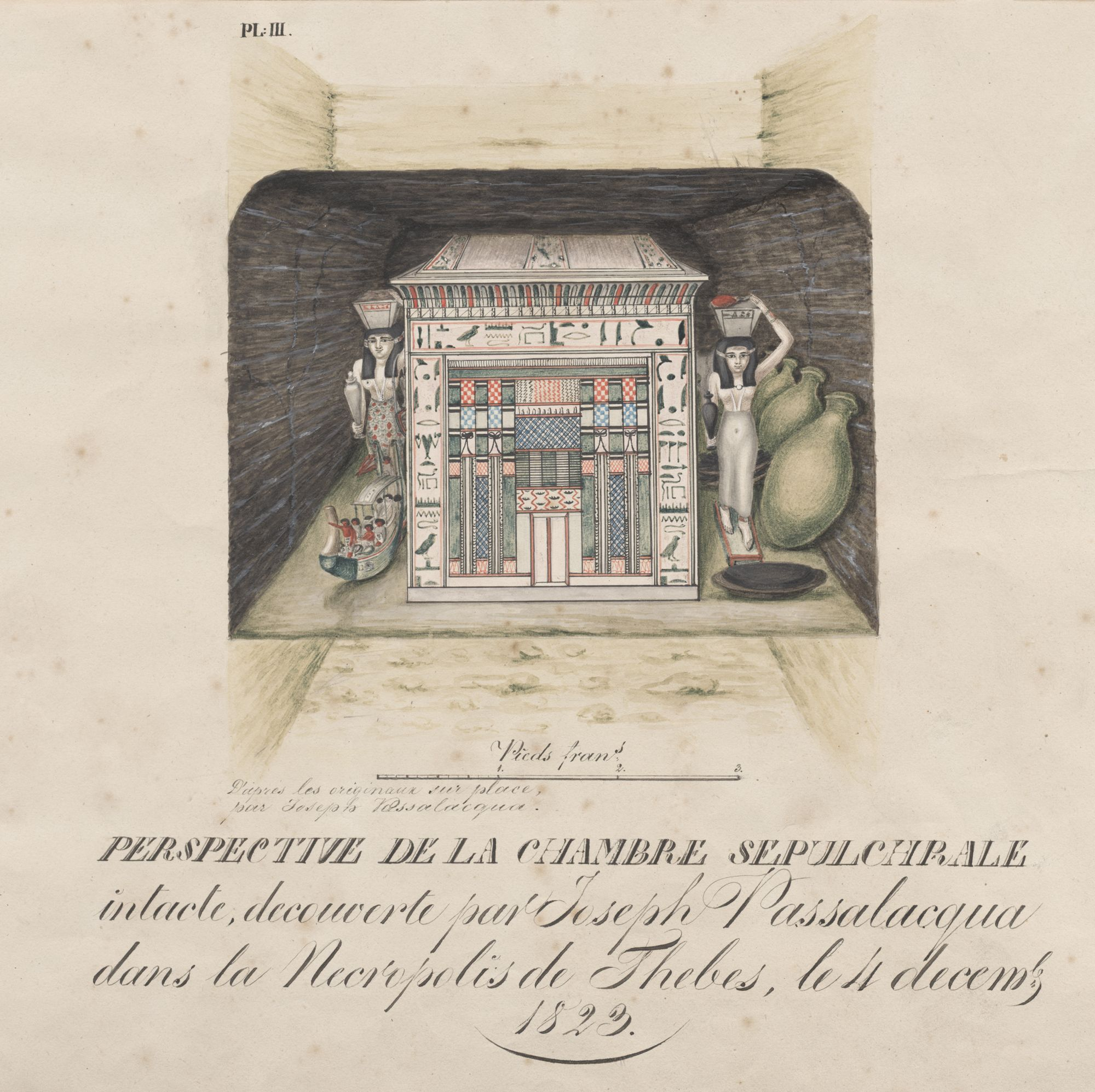 Artefacts in the grave of Mentuhotep, original coloured drawing by Giuseppe Passalacqua